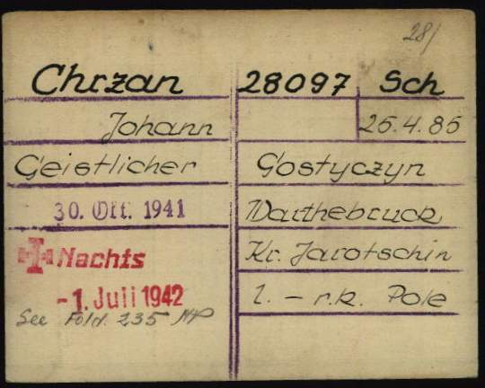 Registration card of Jan Nepomucen Chrzan as a prisoner at Dachau Nazi Concentration Camp. The stamped cross signals the day of his death.